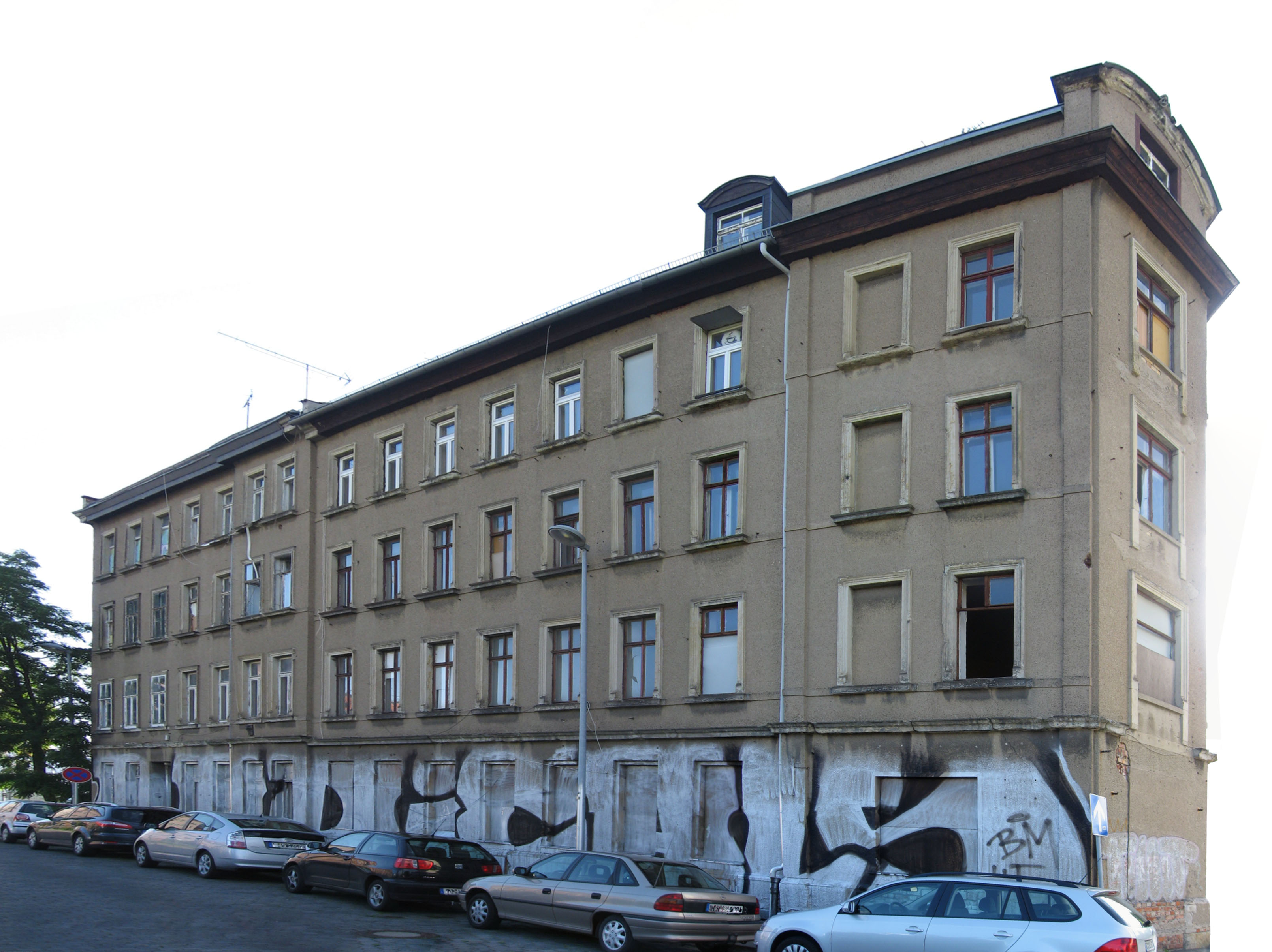 Houses Hofmeisterstrasse 14 (on the left) and Dohnanyistrasse 1 (on the right) in Leipzig. In the house Hofmeisterstrasse 14 Hanns Eisler was born on the 6th of July, 1898.